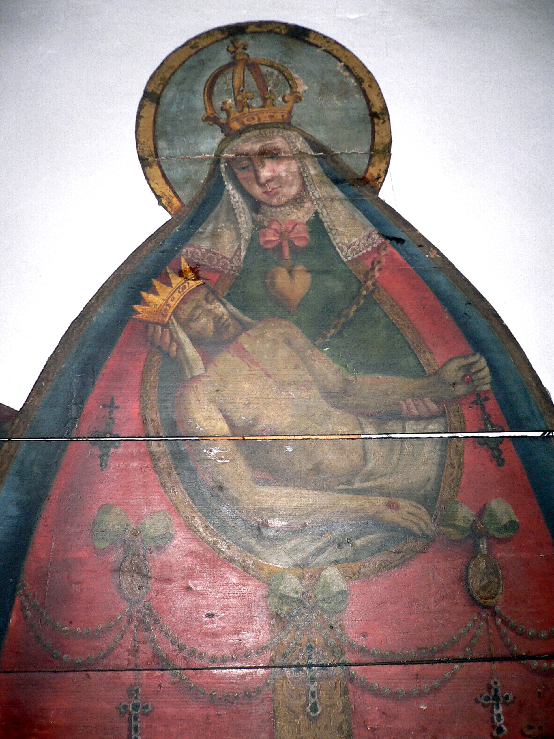 Maria luggau